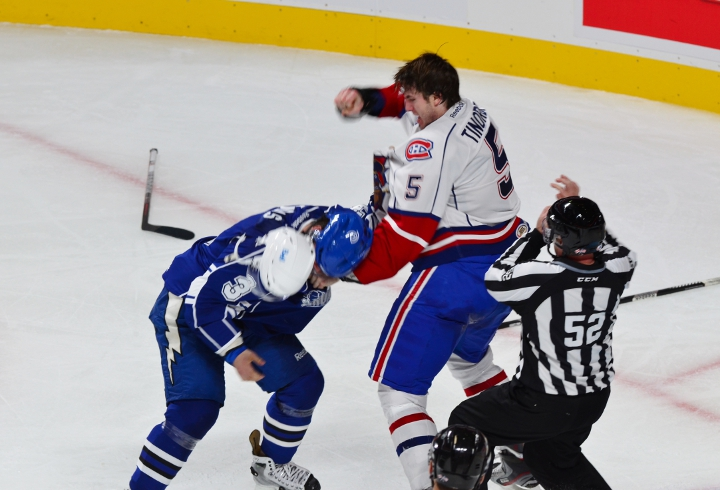 Jarred Tinordi vs. Radko Gudas, in a game between the Hamilton Bulldogs and the Syracuse Crunch at the Bell Centre of Montreal.